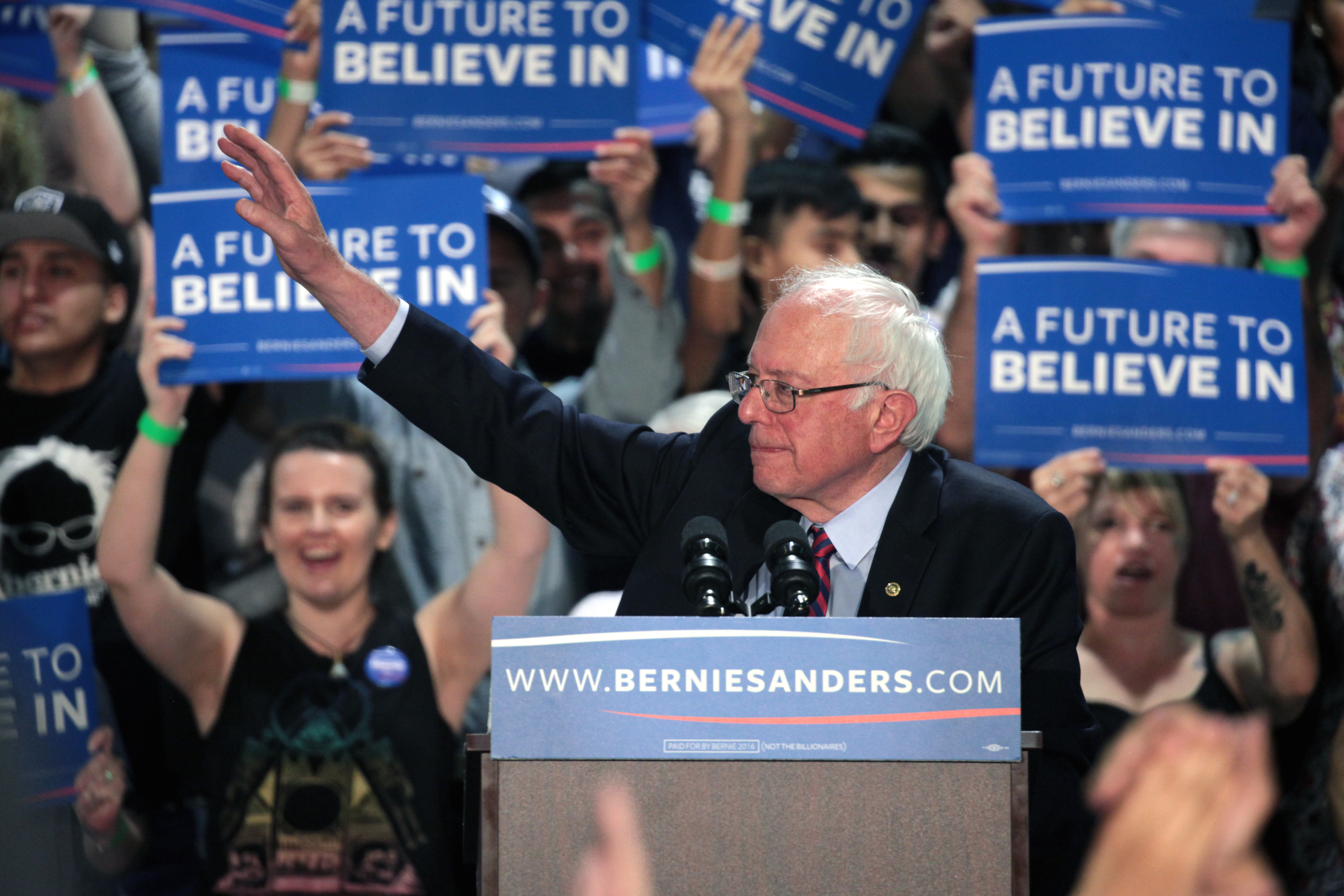 U.S. Senator Bernie Sanders speaking with supporters at the Agriculture Center at the Arizona State Fairgrounds in Phoenix, Arizona.